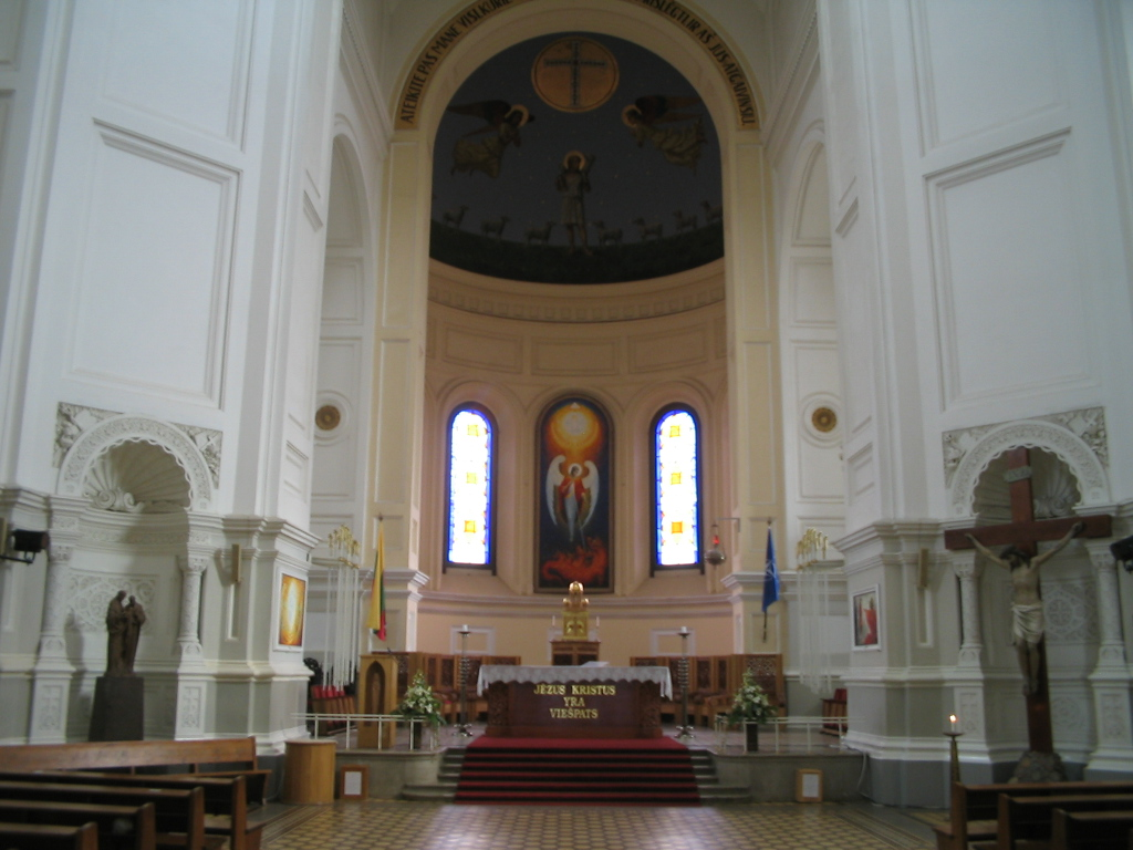 Soboras Church (Interior), Kaunas (Lithuania).